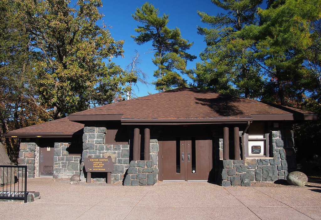 Visitor center (originally a refectory and gift shop), Interstate State Park, Minnesota, USA